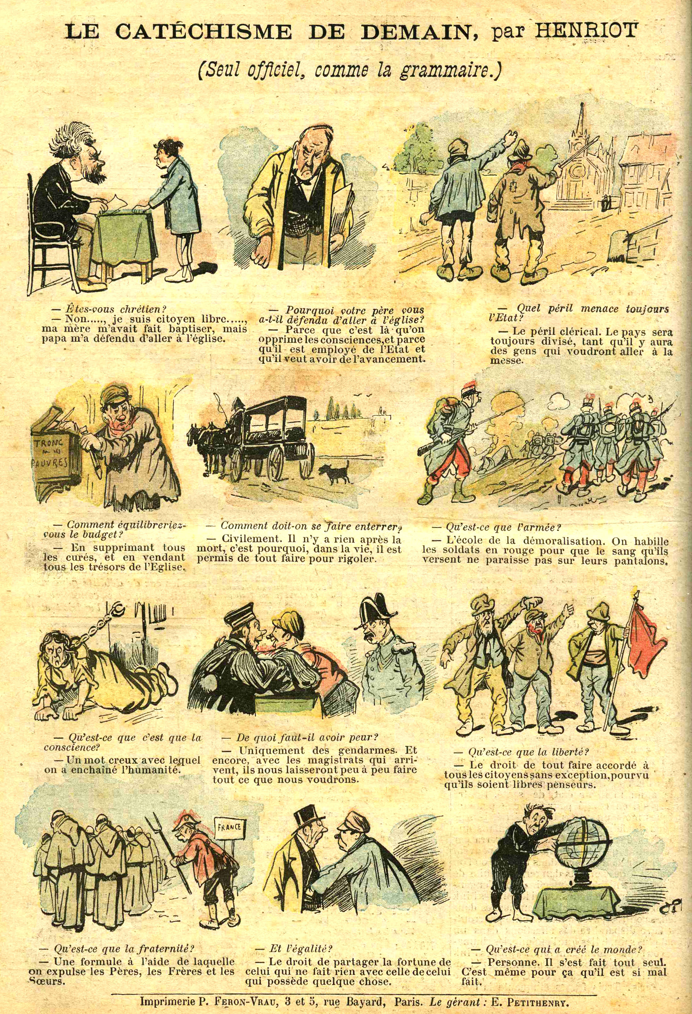 Comic strip by French caricaturist Henriot